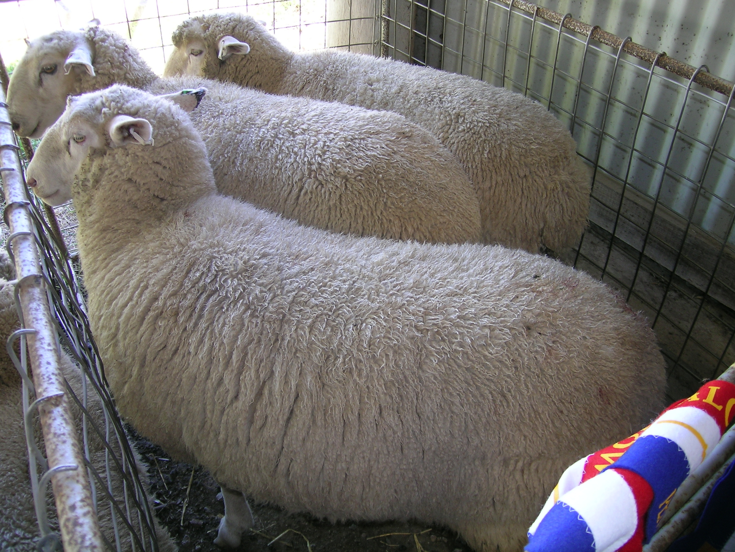 Prime lamb competition, Walcha, NSW